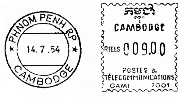 Meter stamp catalog image, Cambodia type 2